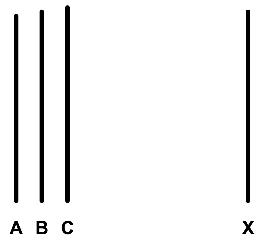 Asch conformity experiment